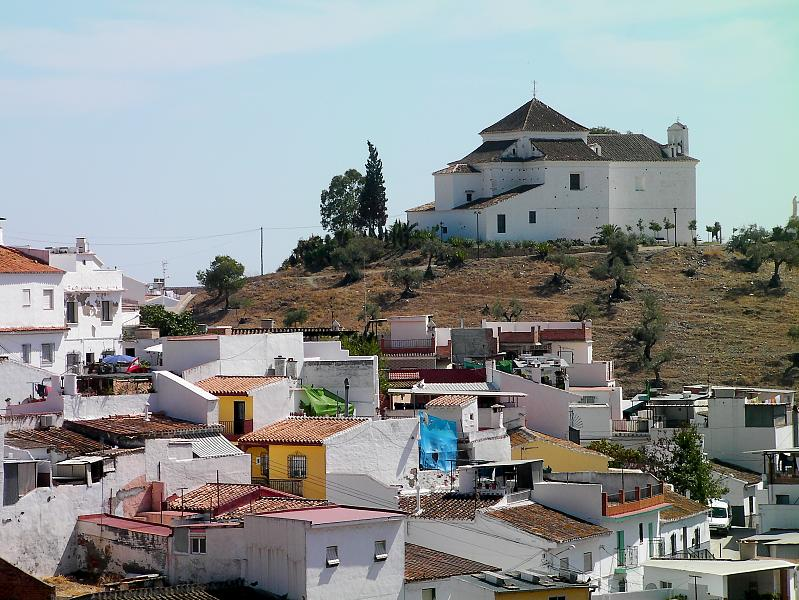 Vélez-Málaga, Spain